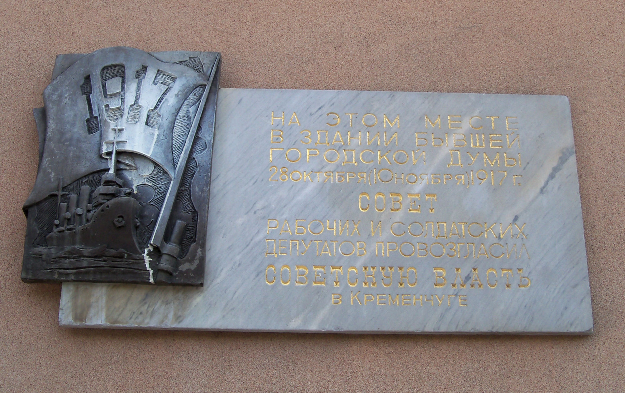 Memorial plaque proclaiming the Soviet government in Kremenchuk